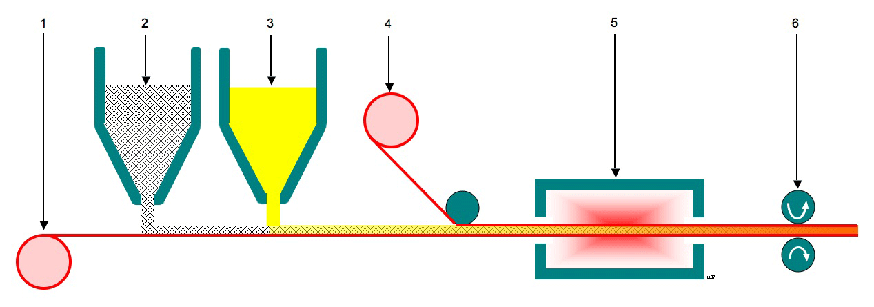 Pultrusion. Visualization of the pultrusion process.